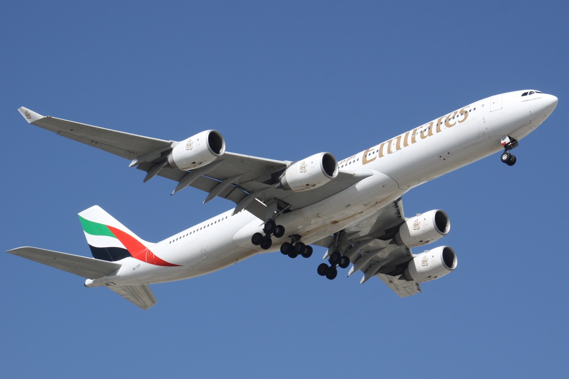 At Dubai